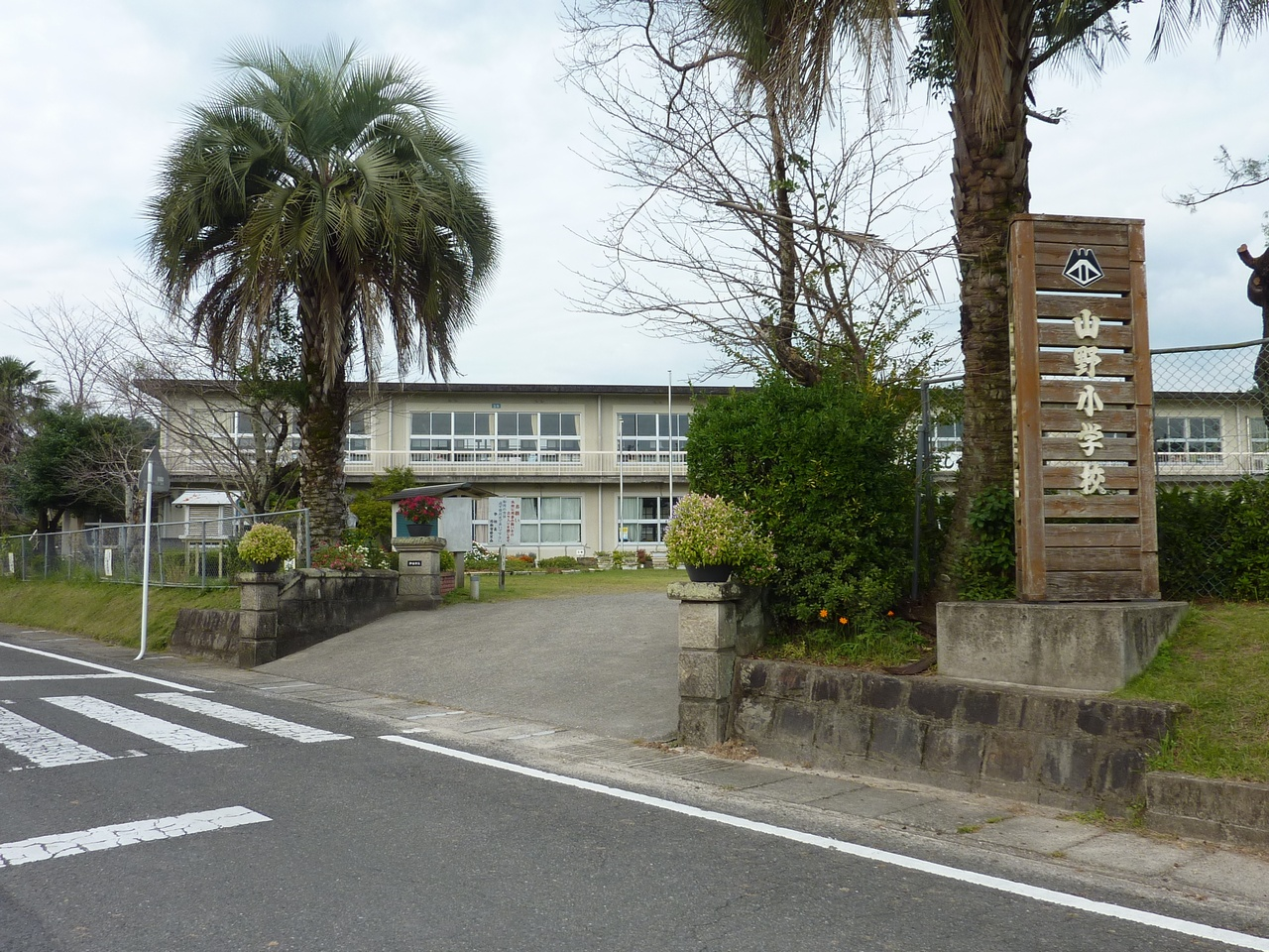 Yamano Elementary School (Isa City, Kagoshima Prefecture, Japan)